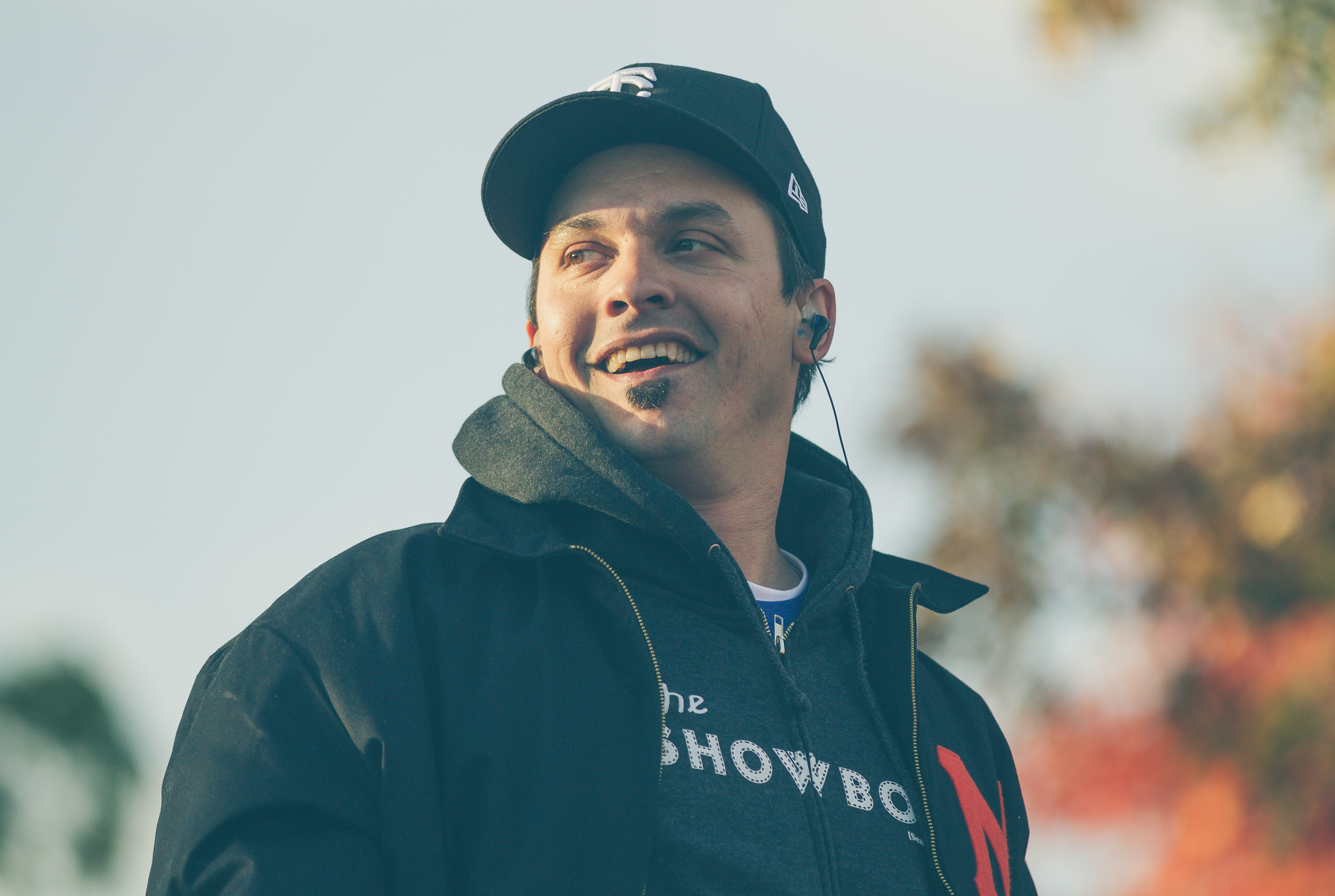 Day of Dignity 2012 - North Minneapolis